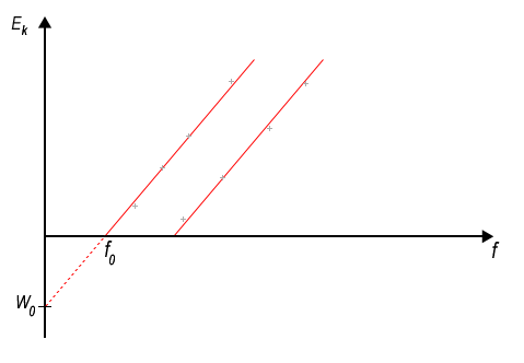 The photoelectric effect: diagram of the kinetic energy of electrons and the frequence of light, determining the work function and Planck's constant.